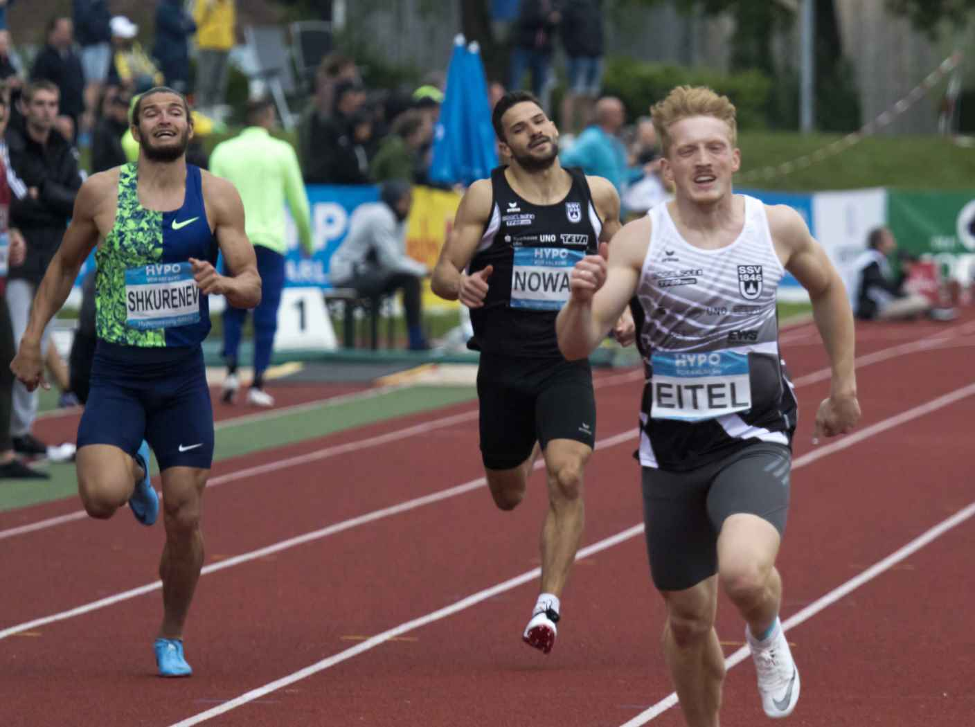 2019 Hypo-Meeting Götzis